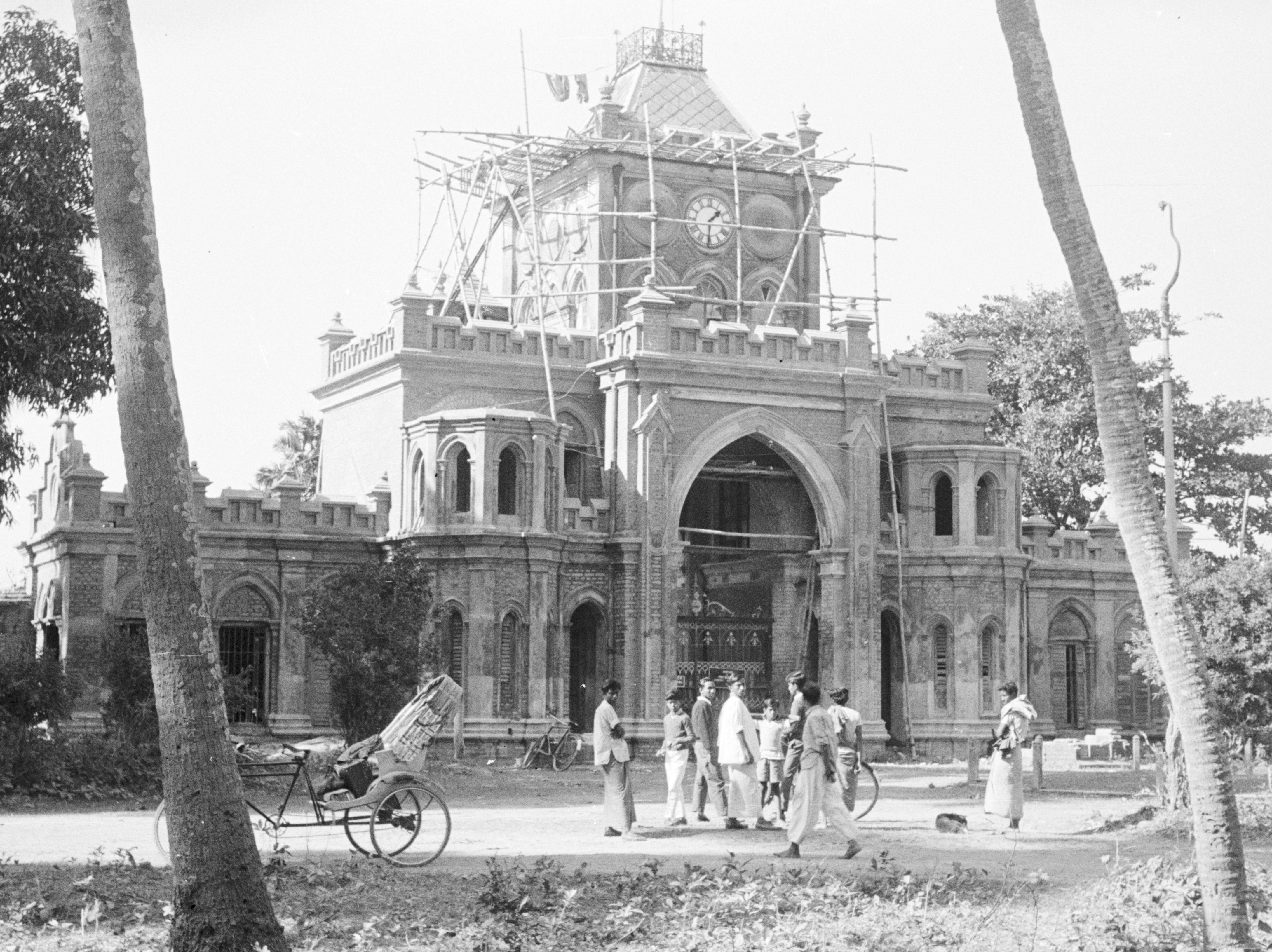 Dighapatia Rajbari.